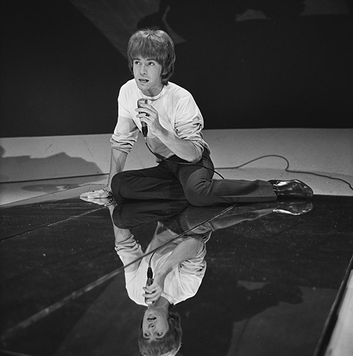 David Garrick in het televisieprogramma Fanclub